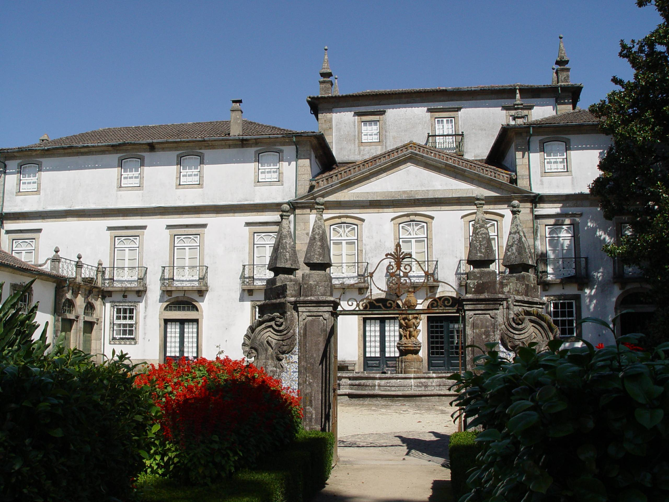 Garden of Biscainhos Palace in Braga, Portugal